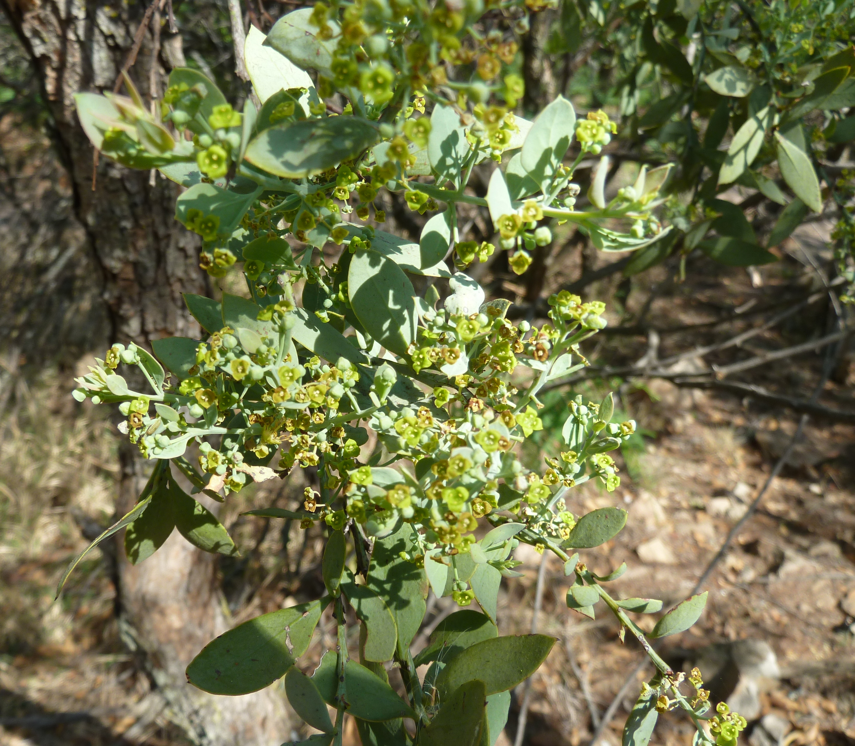 A flowering Transvaal sumach in the Pretoria National Botanical Garden, South Africa